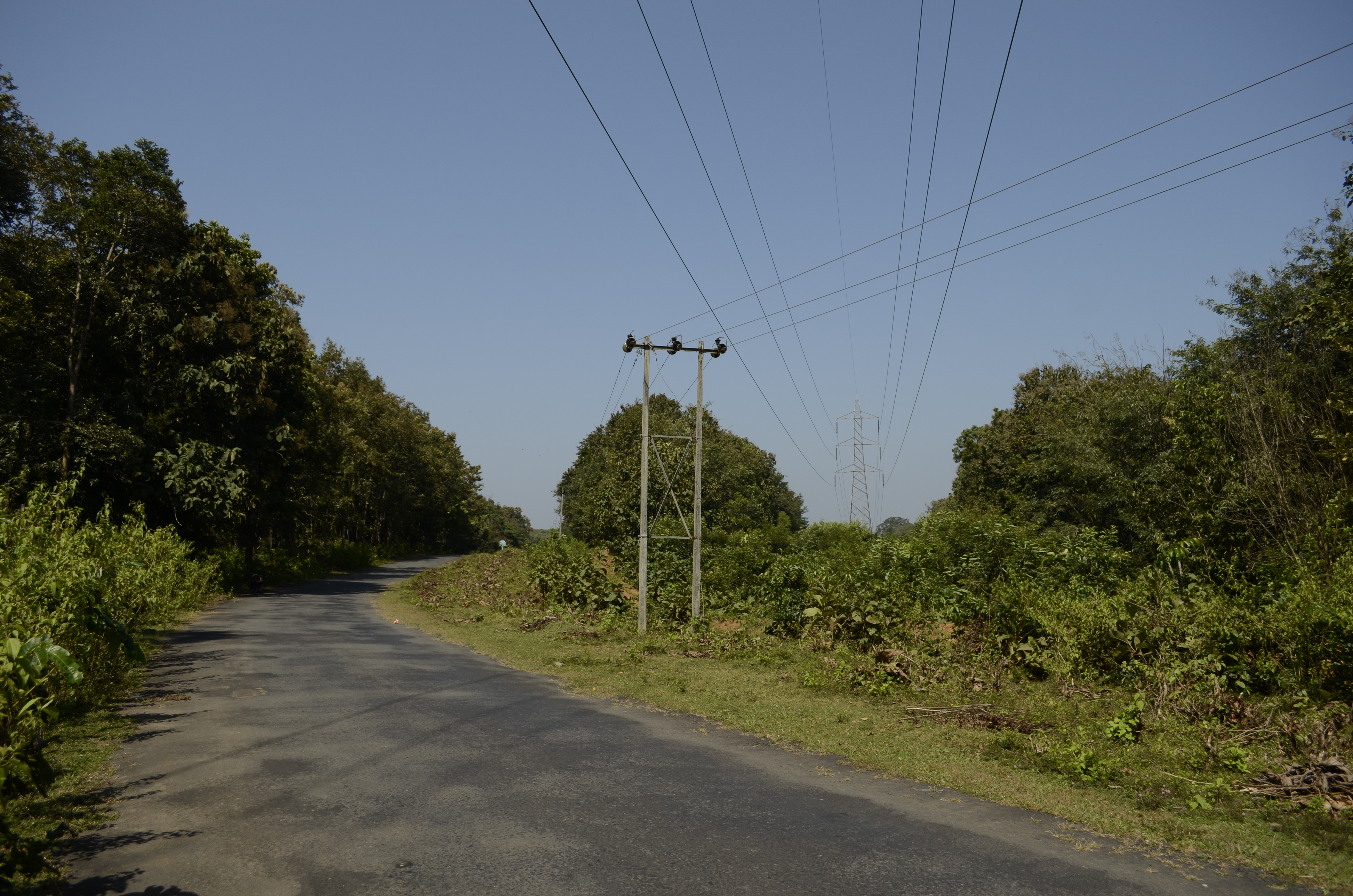 Multiple intrusions slicing forest, taken in Goa